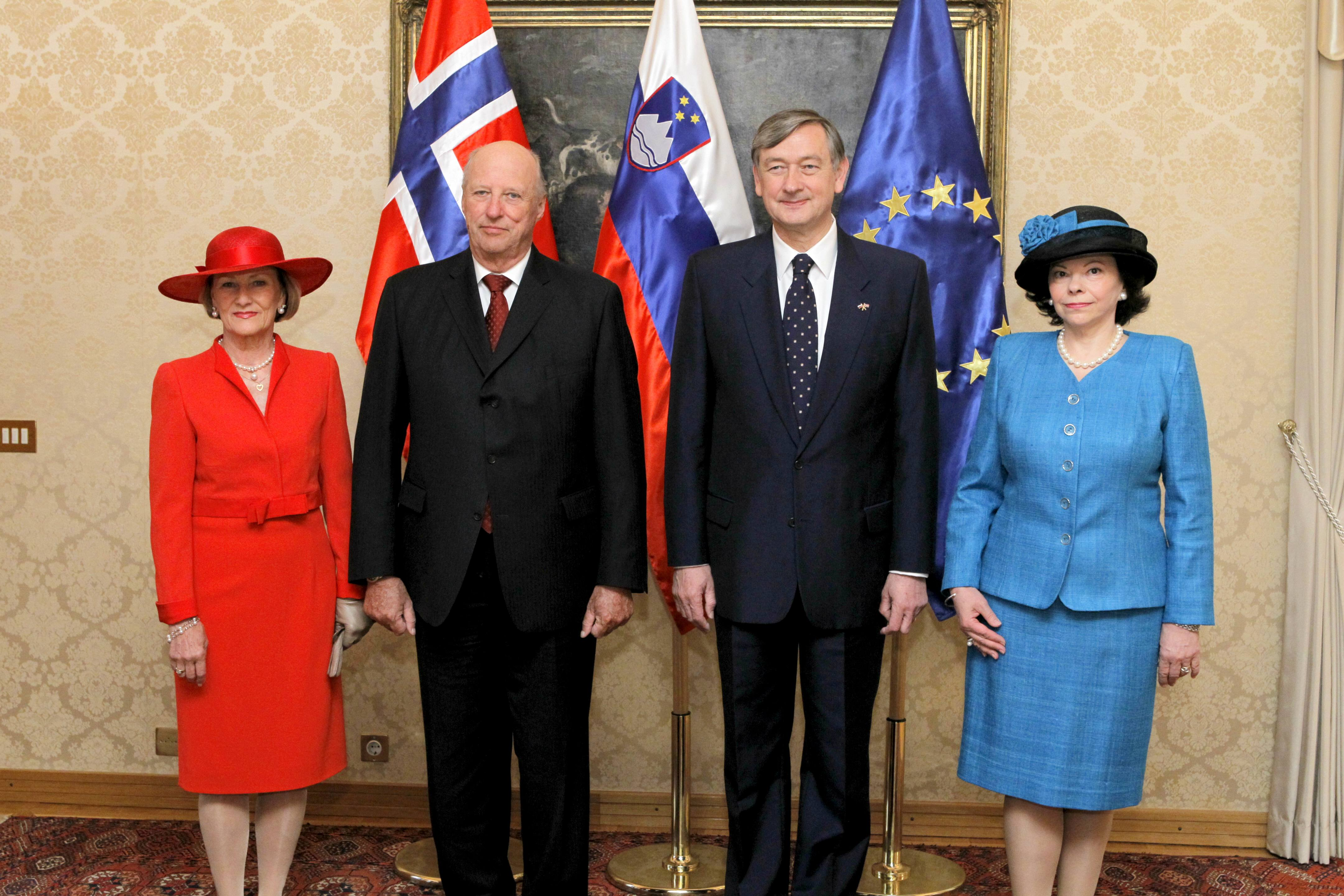 King Harald V and Queen Sonja of Norway with the Slovenian President Danilo Türk and First Lady Barbara Miklič Türk in Slovenia in 2011